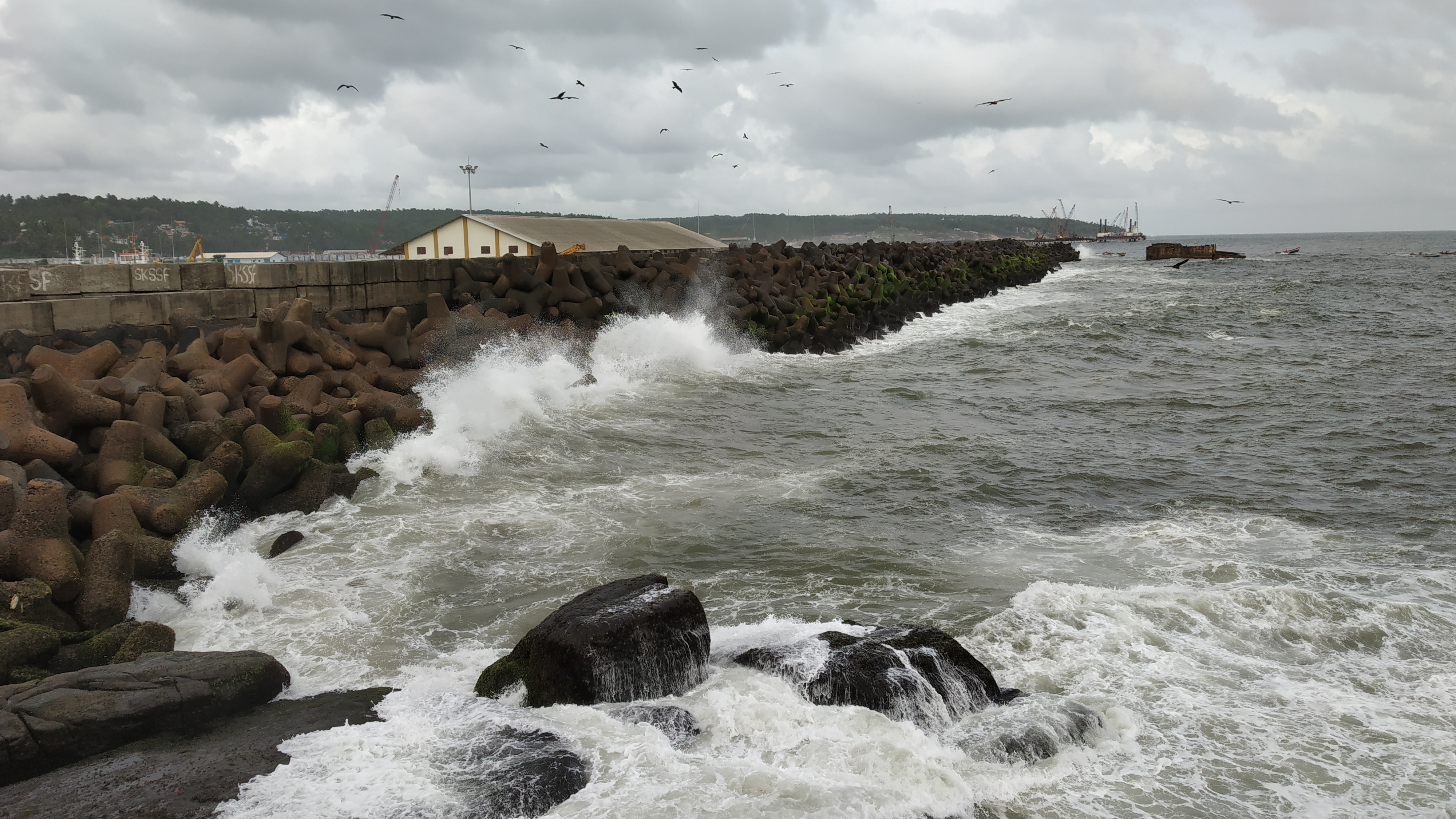 A view of vizhinjam harbor